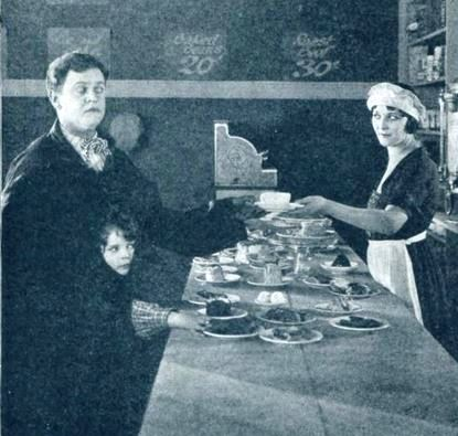 Still from the American comedy short film Rolling Stones (1922) with Lloyd Hamilton, Irene Dalton, and child actor Robert DeVilbiss, on page 50 of the April 1922 Film Fun.